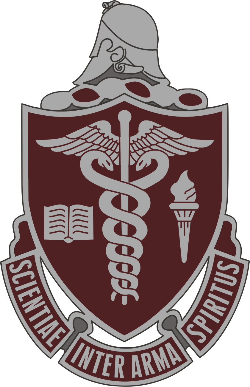 Walter Reed Army Medical Center distinctive unit insignia from [1] Automatically converted to PNG The PNG crusade bot automatically converted this image to the more efficient PNG format. The image was previously uploaded as "WALTER REED ARMY MEDICAL CENTER DUI.gif". Previous file history 06:02:40, 19 December 2006 . . Nobunaga24 (Talk